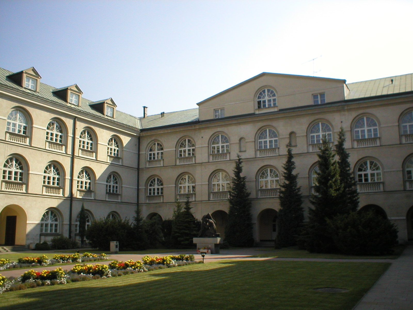 Poland, Lublin, Catholic University of Lublin - the courtyard of the University